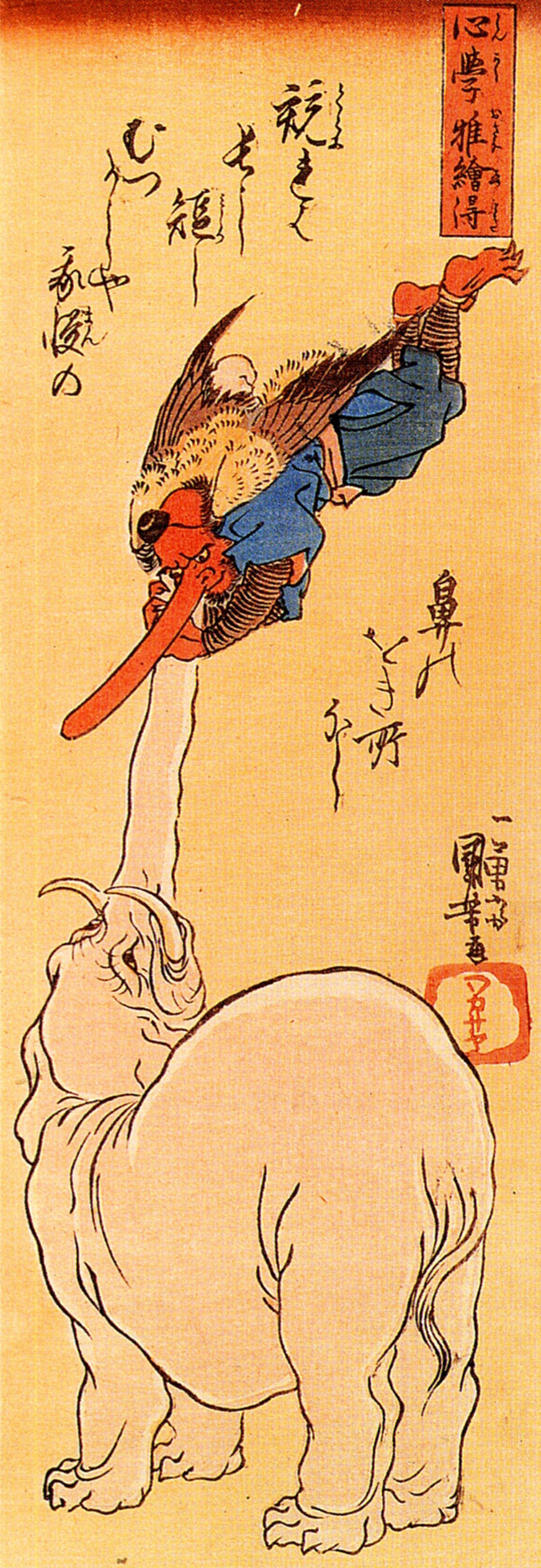 Ukiyoe print by Utagawa Kuniyoshi. The poem (substituting hentaigana and adding punctuation) reads, 競れば､長し短し､むつかしや。我慢の鼻の､を(置)き所なし Kurabureba, nagashi mijikashi, mutsukashiya. Gamanno hanano, okidokoro nashi and means something like, "If you compete, long or short, it's a problem. With a boast-worthy? nose, there's no place to put it."